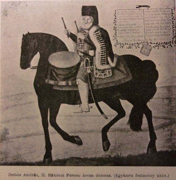 Dobos András, Herald of Francis II Rákóczi,People of Rákóczi's War for Independence